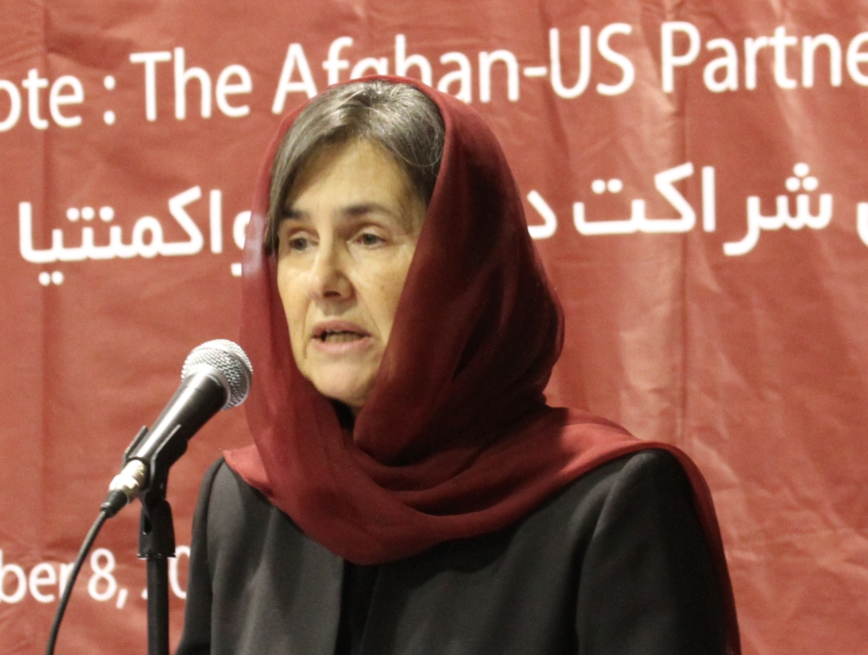 Rula Ghani